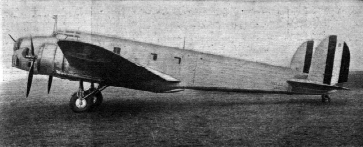 An Italian Regia Aeronautica Fiat BR.20 in 1938.